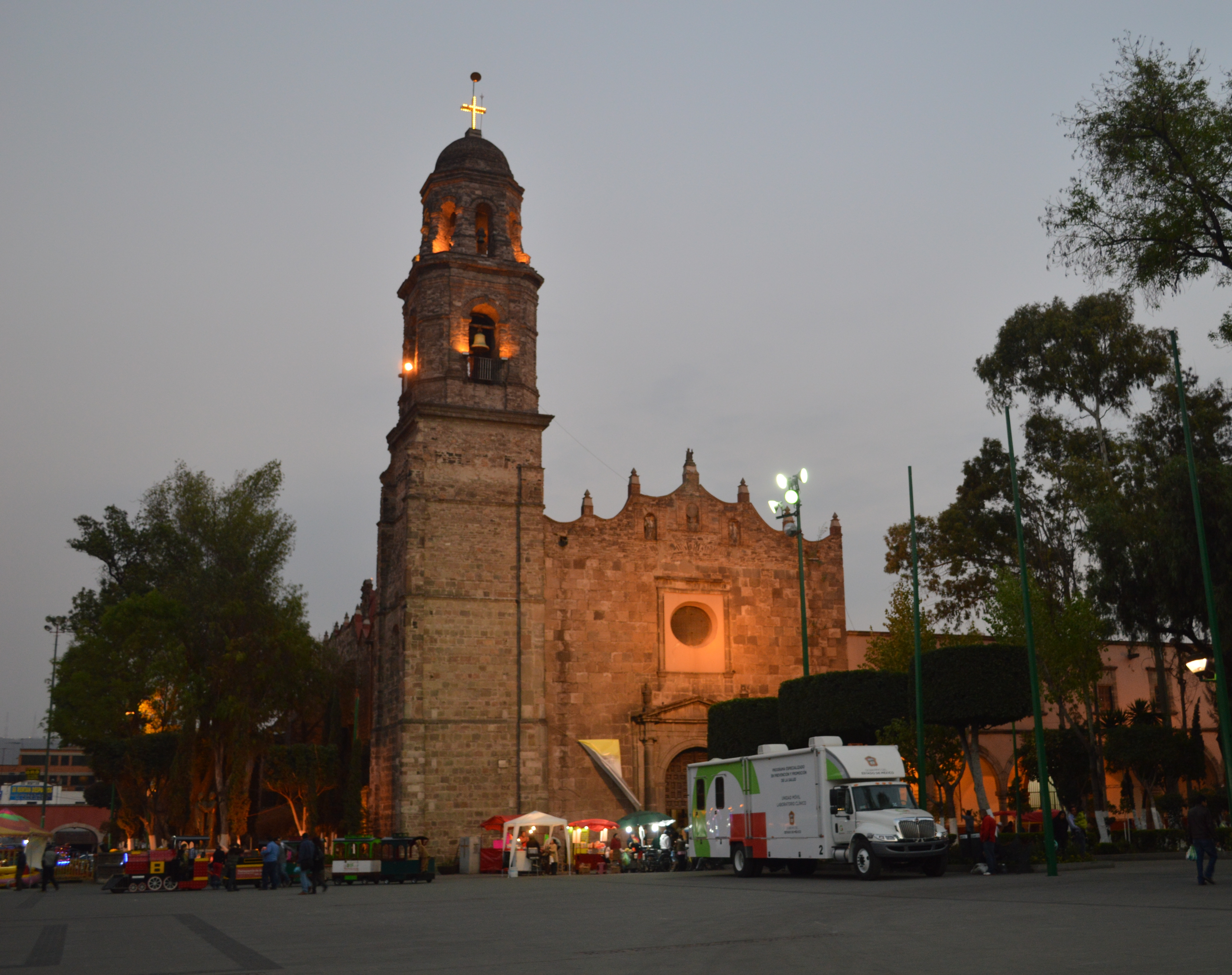 View of the cathedral of Tlalnepantla, State of Mexico, Mexico